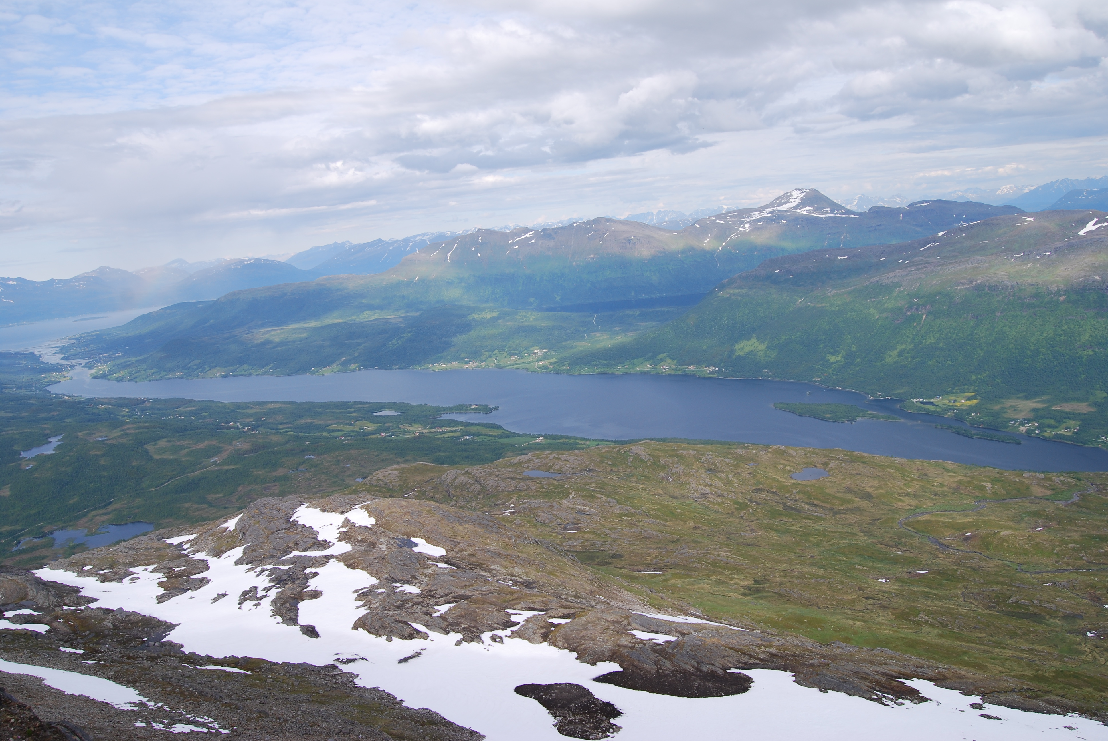 Rossfjordvatnet lake, Lenvik, Norway.